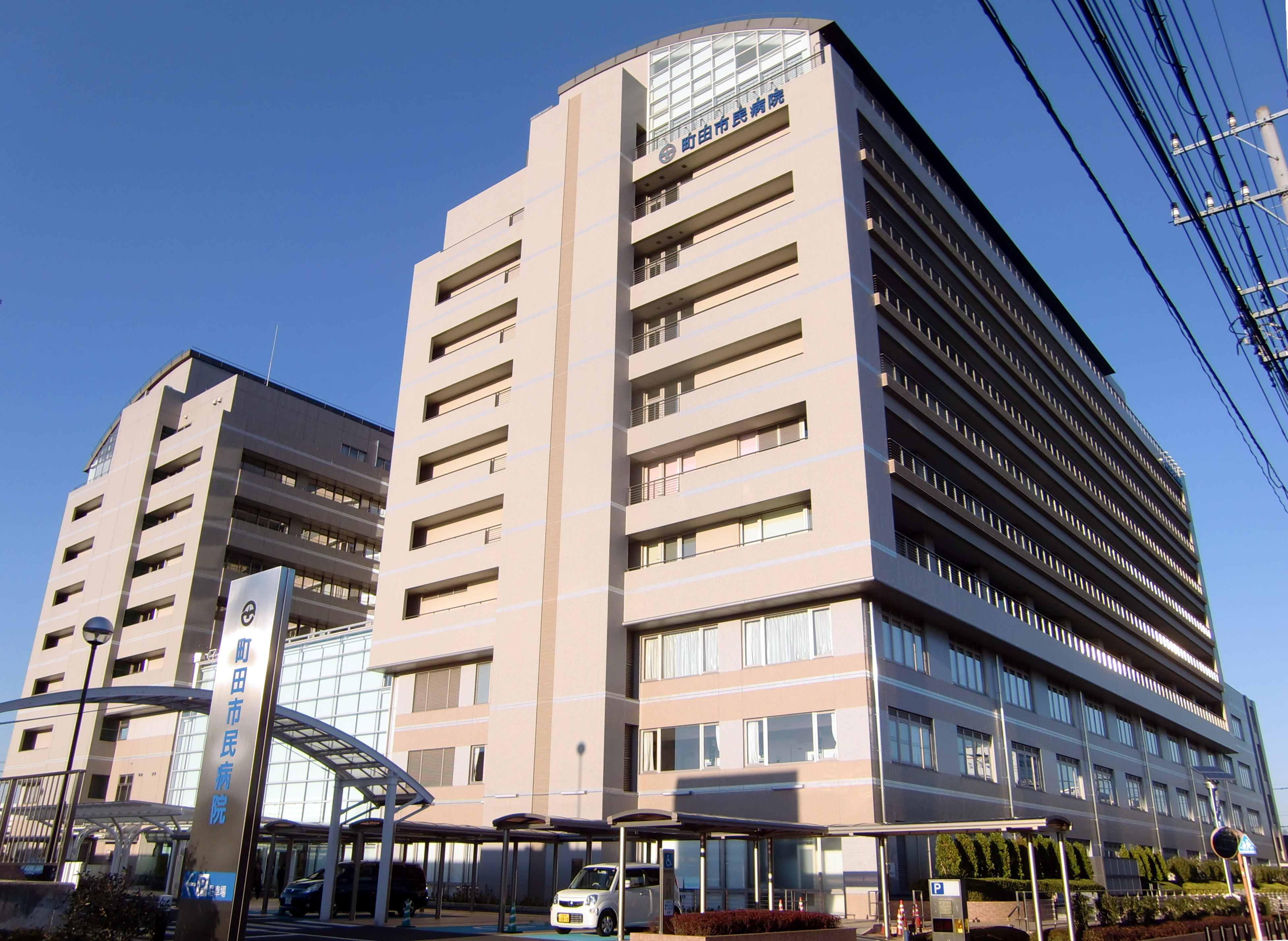 Machida Municipal Hospital